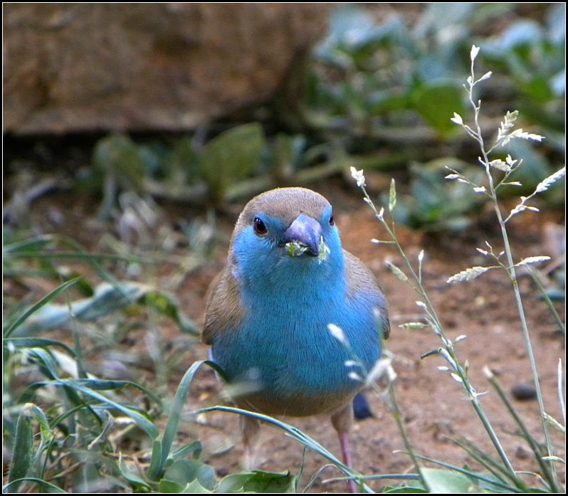 Uraeginthus angolensis Blue Waxbill